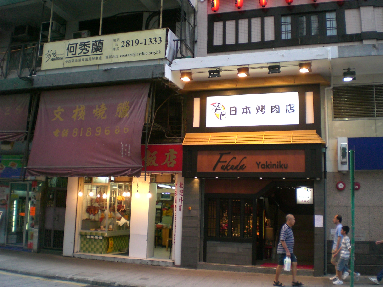 Cyd Ho Sau Lan, 何秀蘭, The Frontier Office, 卑路乍街, Kennedy Town, Hong Kong. Author= DaHappyApple